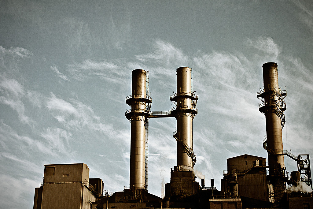 View of Citizens Energy Group's Perry K. Generating Station smokestacks in Indianapolis, Indiana, USA.